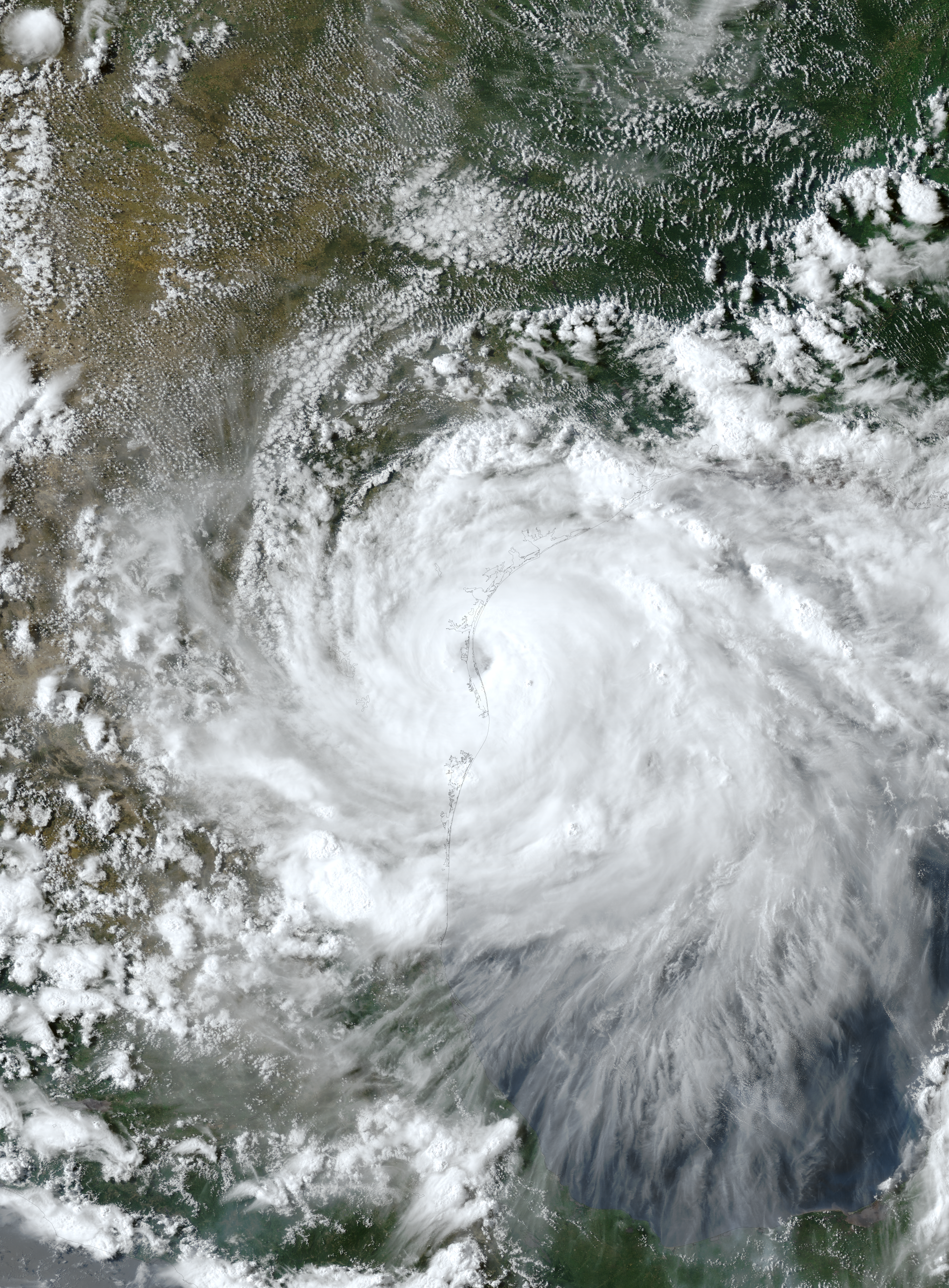 Hurricane Hanna making landfall on Padre Island, Texas on July 25, 2020.